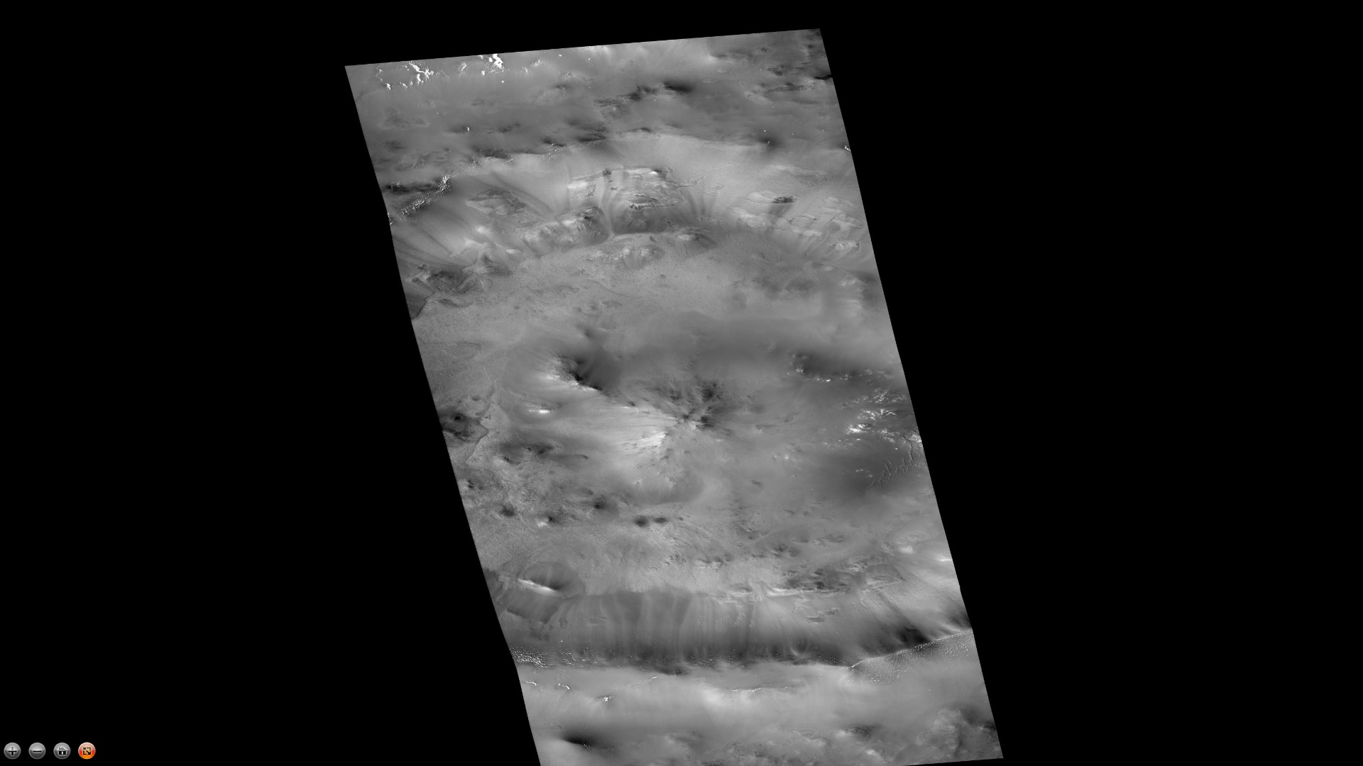 Kunowsky Crater, as seen by CTX. Dark dots in center are dunes.